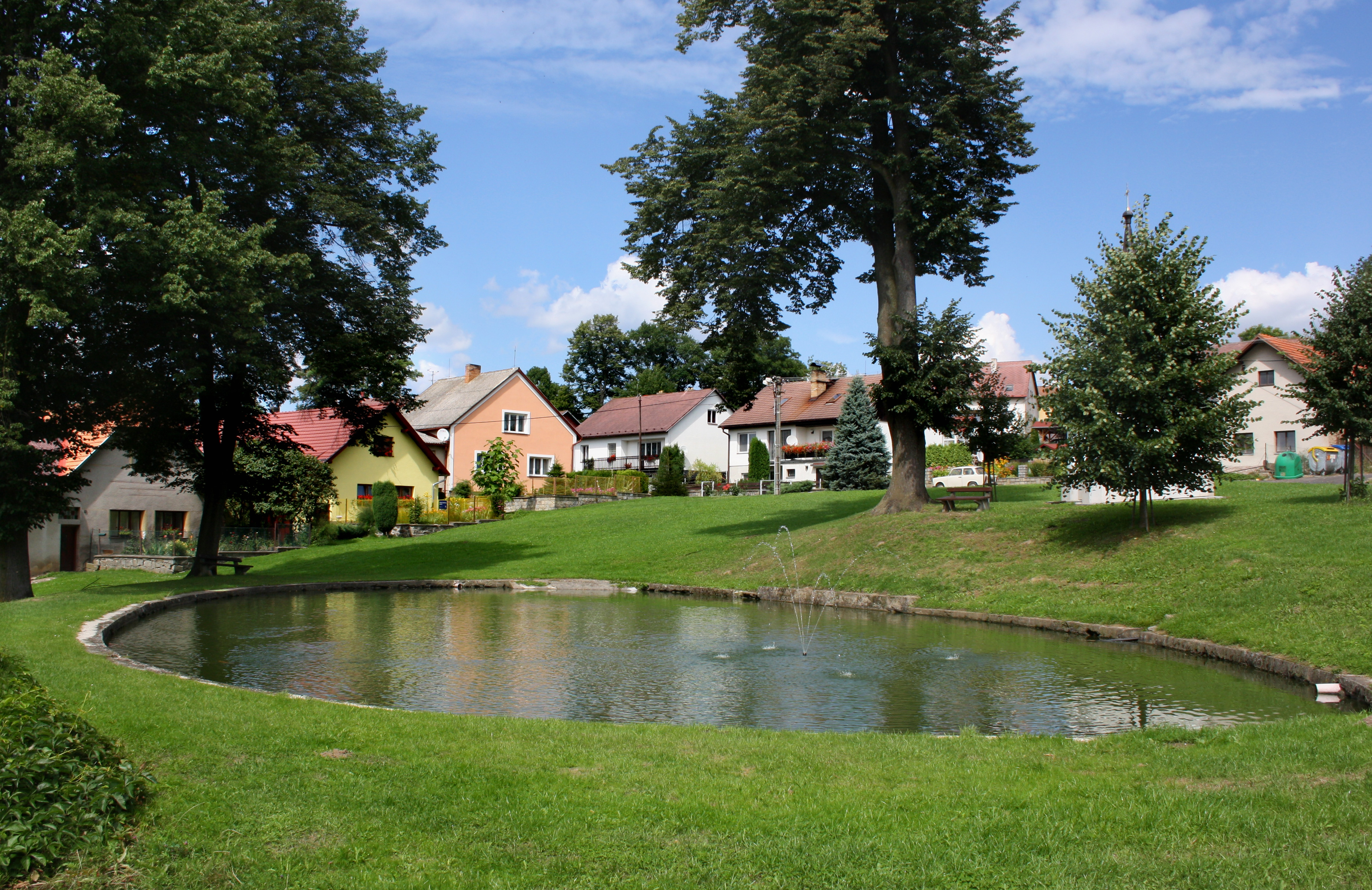 Small common pond in Putimov, Czech Republic